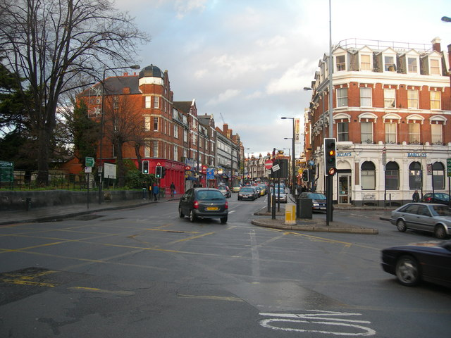 Streatham High Road, SW16 Near the junction with Gleneldon Road and Mitcham Lane.